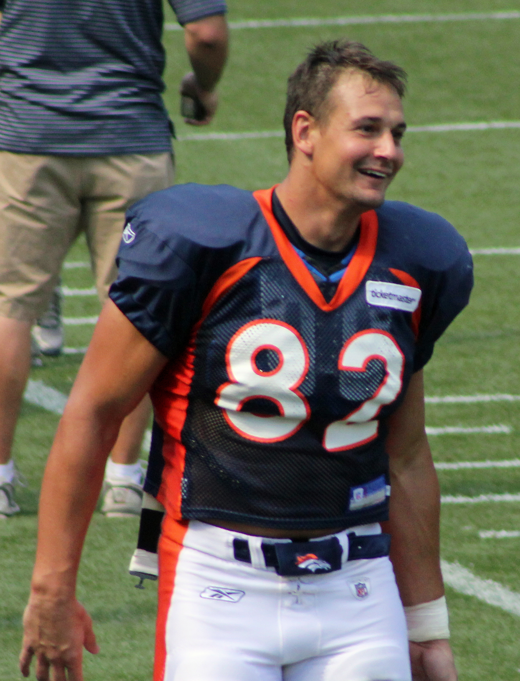 Dan Gronkowski in training camp with the Denver Broncos in 2011